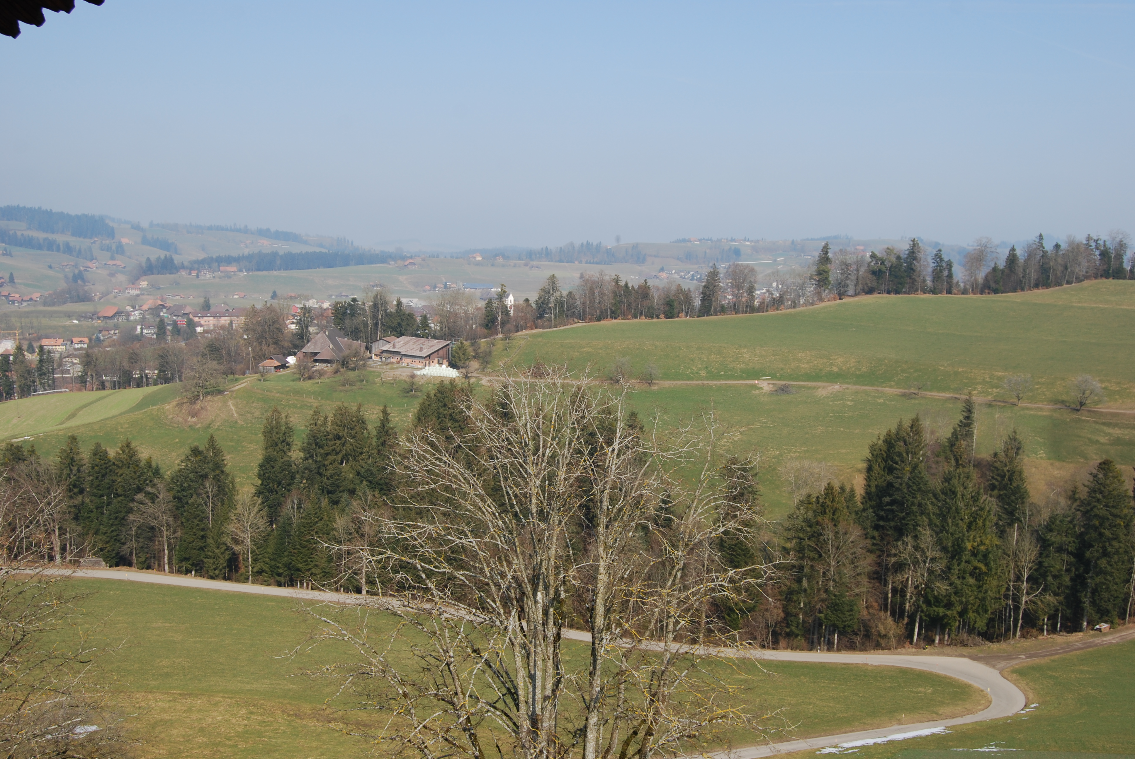 Sumiswald, view from the tower of Castle Trachselwald, canton of Bern, Switzerland